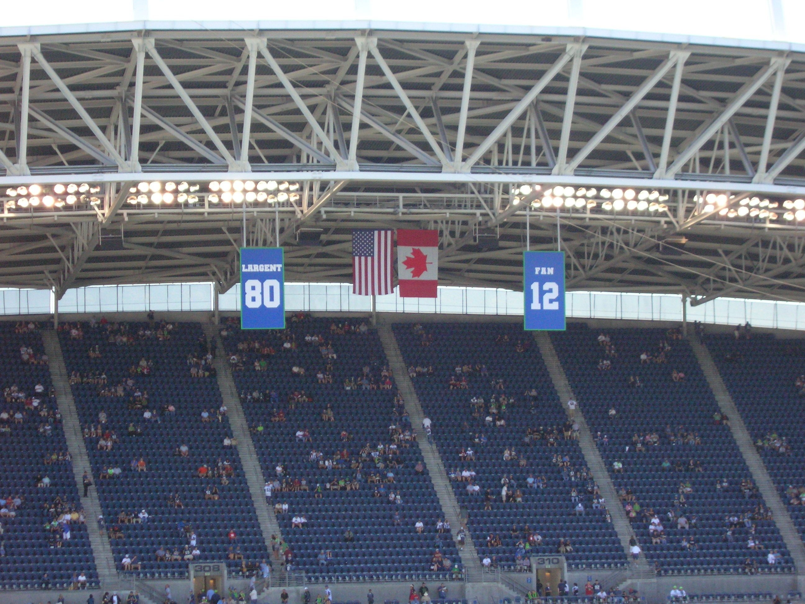 Picture of banners for retired Seahawks Numbers as they hang over the East (visitors) sideline in Qwest Field, Seattle Washgington. 12 FAN, 80 Largent, Steve.